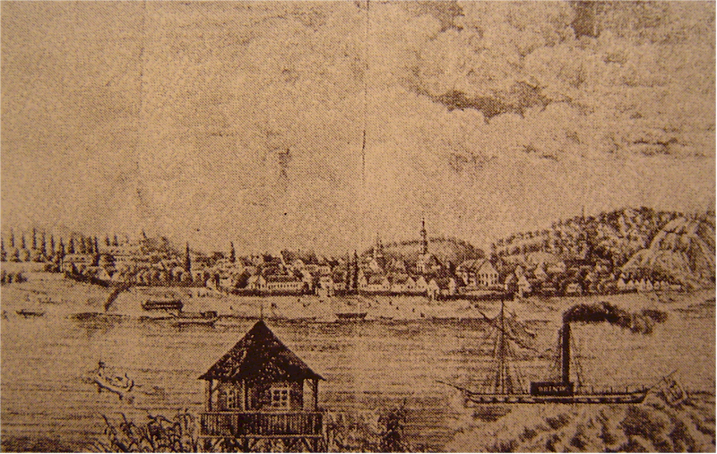 Engraving of Zemun, from around 1850